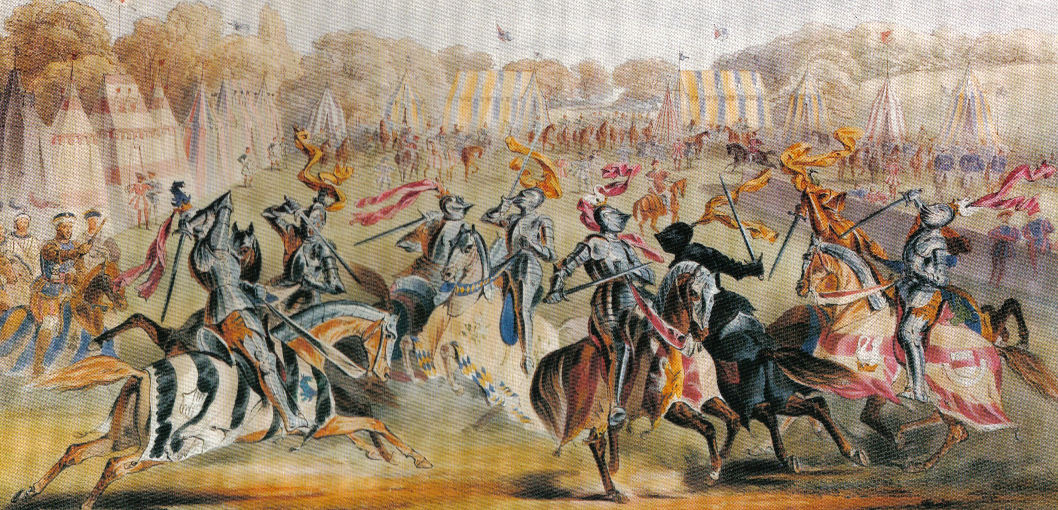 The Melee, Eglinton Tournament, Irvine, Ayrshire James Henry Nixon 1839 Roger Griffith